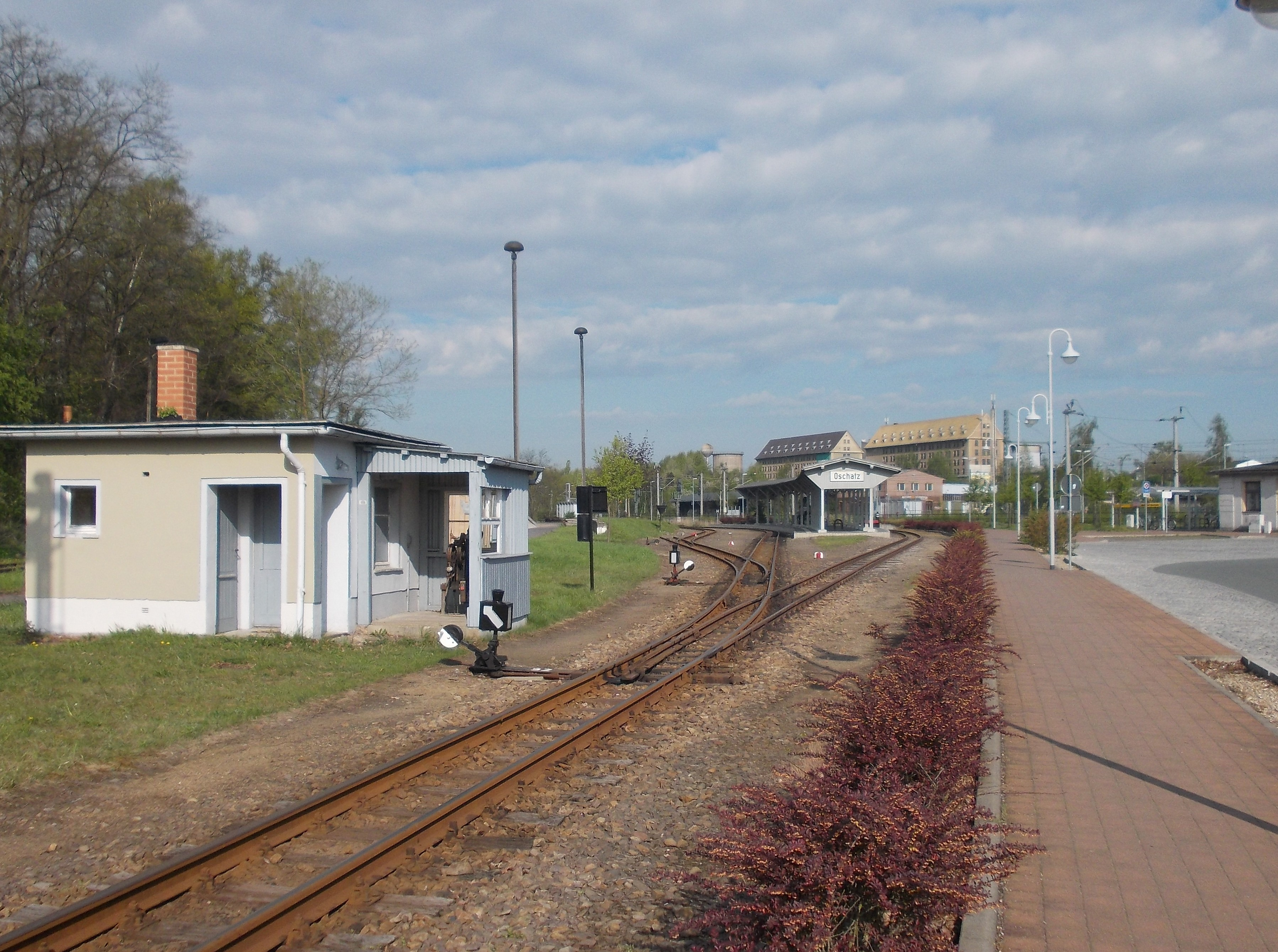 Narrow-gauge railway station at Oschatz train station (Nordsachsen district, Saxony)